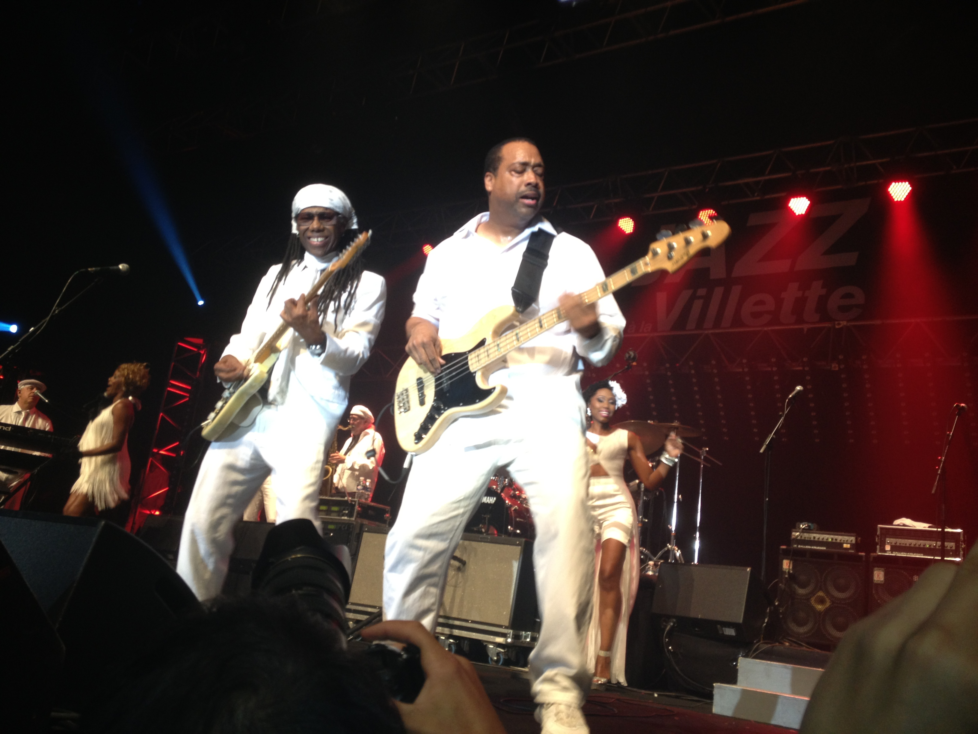 Nile Rodgers and Jerry Barnes during a Chic concert in Paris, september 10th 2013